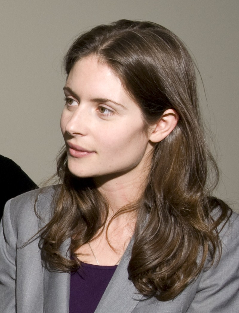 Photograph of activist Anna Baltzer giving a lecture at Columbia University, New York.